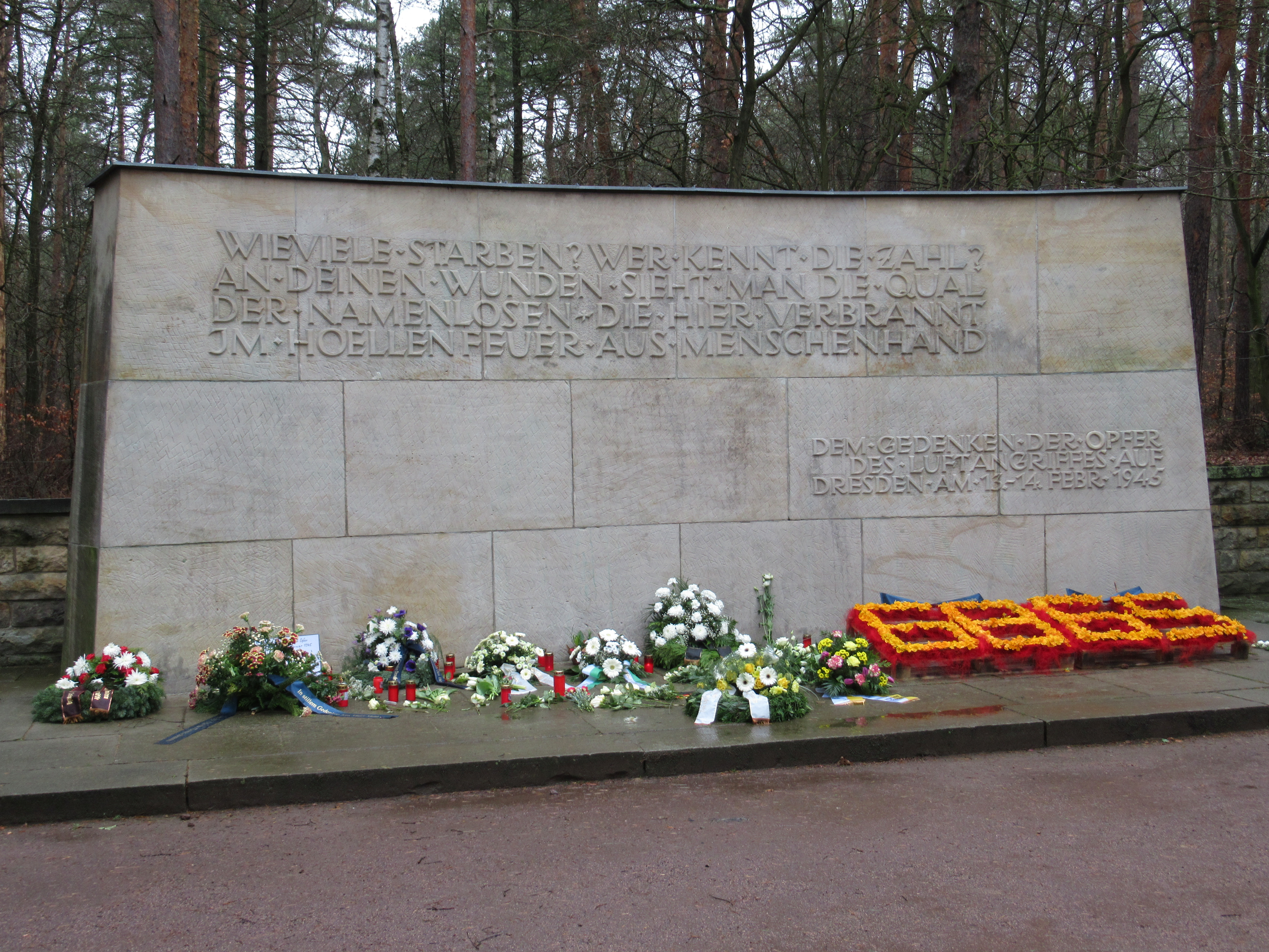 Dresden Heidefriedhof Monument for Victims of Air Raids in 1945